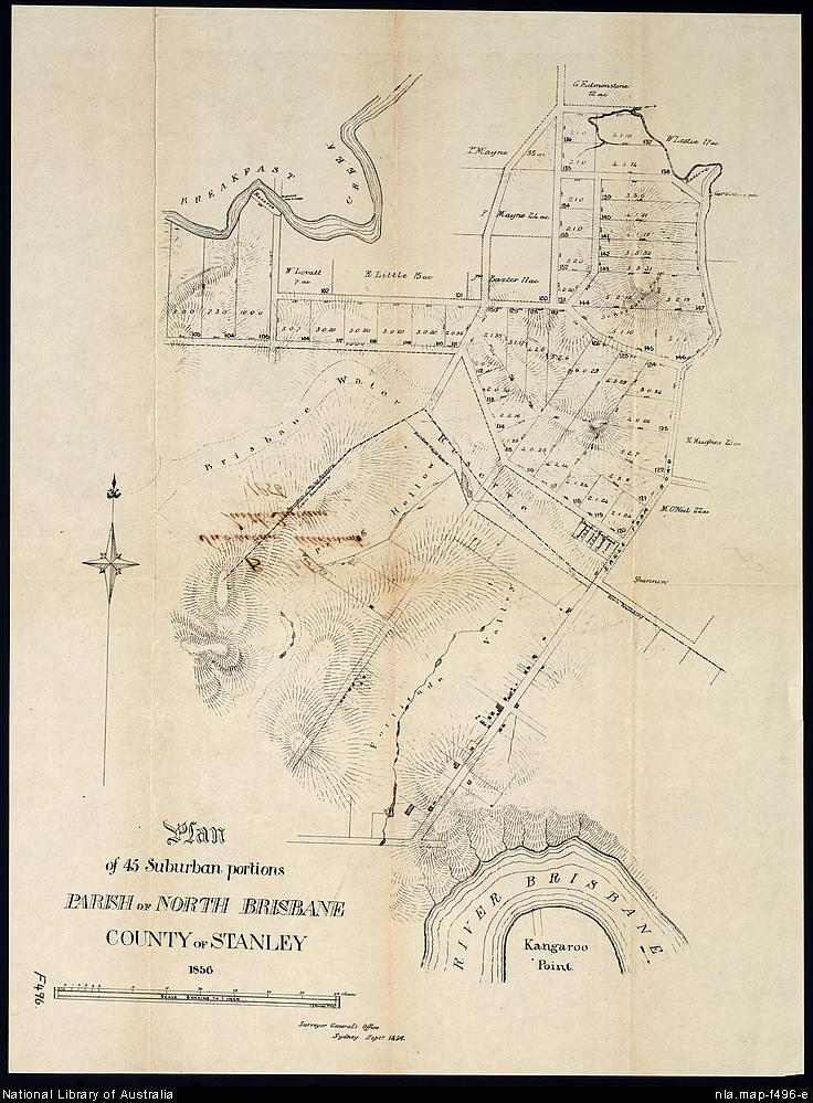 Digitised cadastral plan showing 45 plots of land for sale in the Fortitude Valley area of Brisbane, along with neighbouring land plots and water reserve.